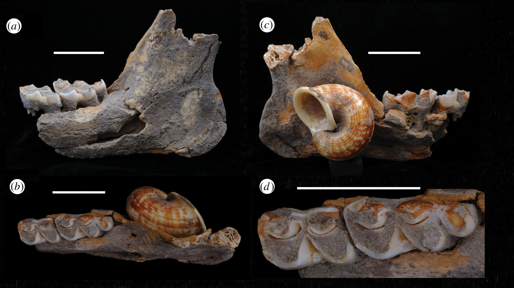 left mandible Muntiacus gigas (HBC-27587) shown in lateral (a), dorsal (b), medial (c) views and occlusal surfaces of m2 and m3 (d). All scale bars = 20 mm.